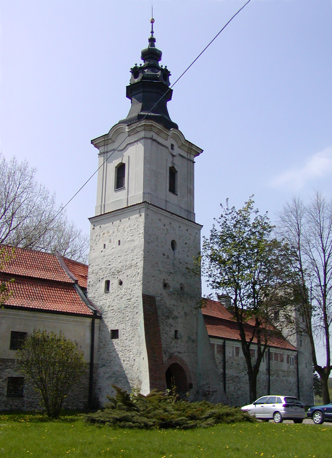 Krakowska Tower in Sulejów Monastery